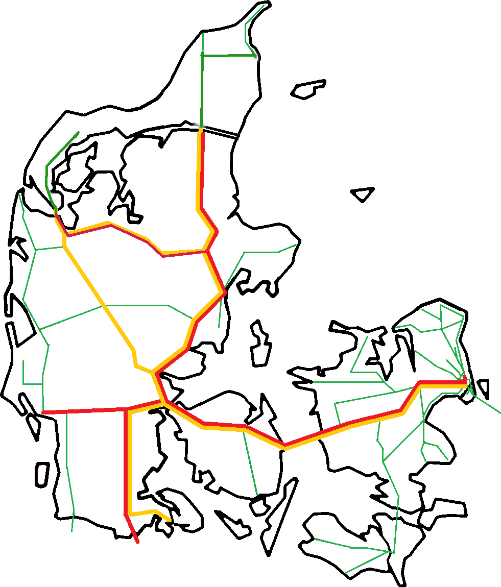 DK 2020 InterCity and InterCityLyn, Map of railways in Denmark with lines served by InterCity in red and InterCityLyn in yellow as of 4 January 2020.